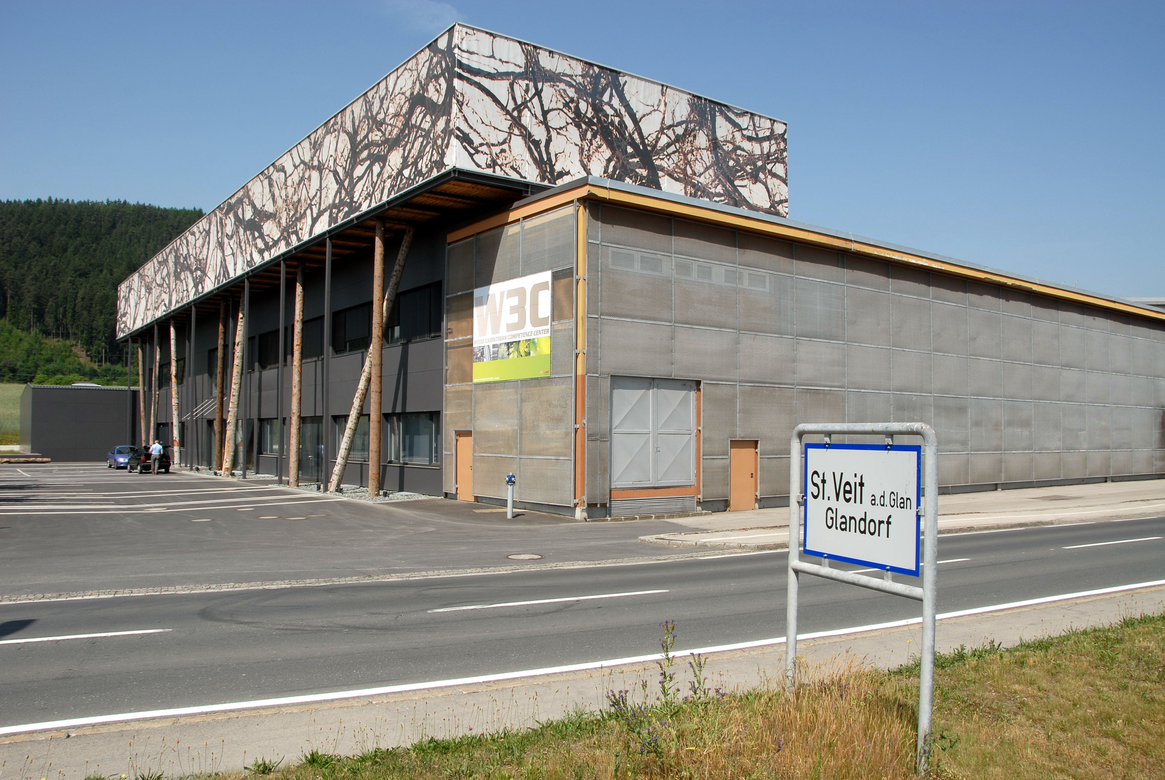 Wood expertise center at Glandorf in the community of Saint Veit by the Glan, Carinthia, Austria